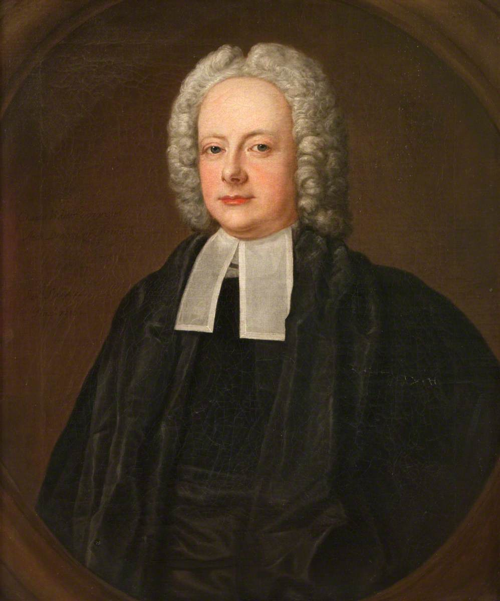 Portrait of Charles Congreve (died 1777), Archdeacon of Armagh.